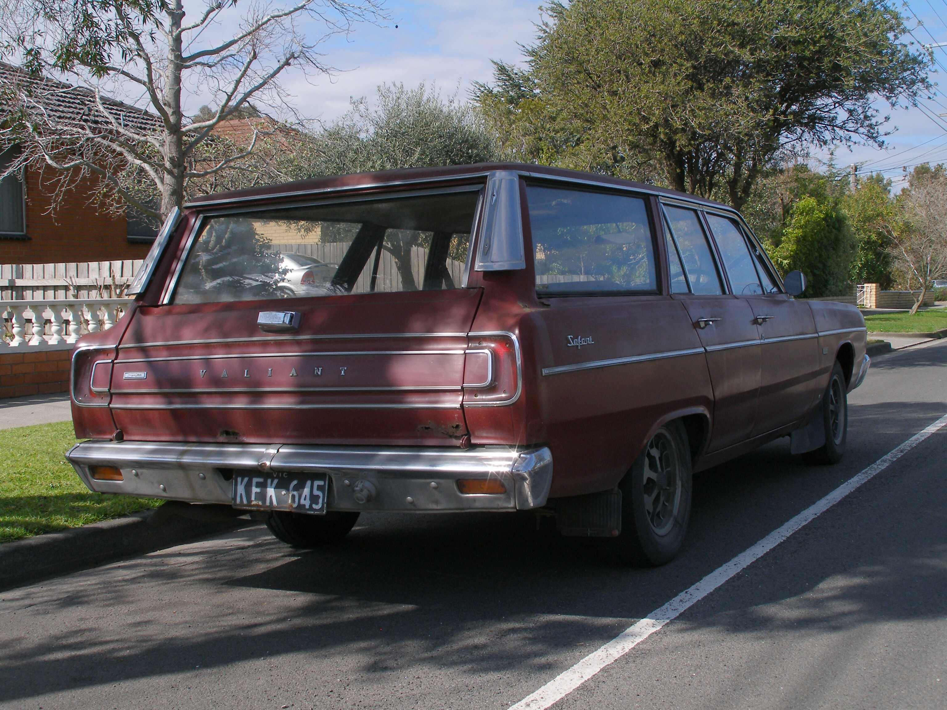 Nicely-proportioned vehicle, in need of a clean-up. This body style was unique to Australia; the US model had no wagon or utility... Another nice Val wagon here